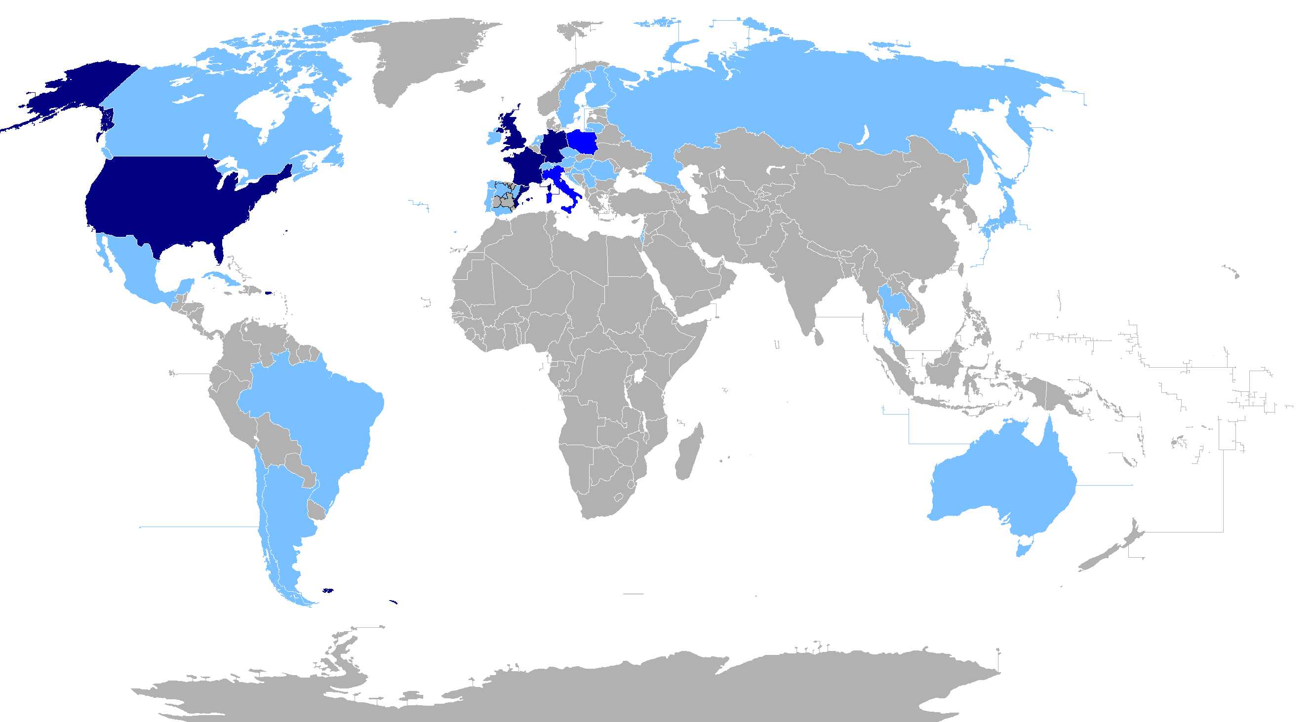 Map of countries (or autonomous communities in Spain) with one or more universities that teach Catalan language. Reference: Countries or spanish autonomous communities where there are 20 or more universities that teach Catalan. Countries or spanish autonomous communities where there are 5 or more universities that teach Catalan. Countries or spanish autonomous communities where there are 1 or more universities that teach Catalan.